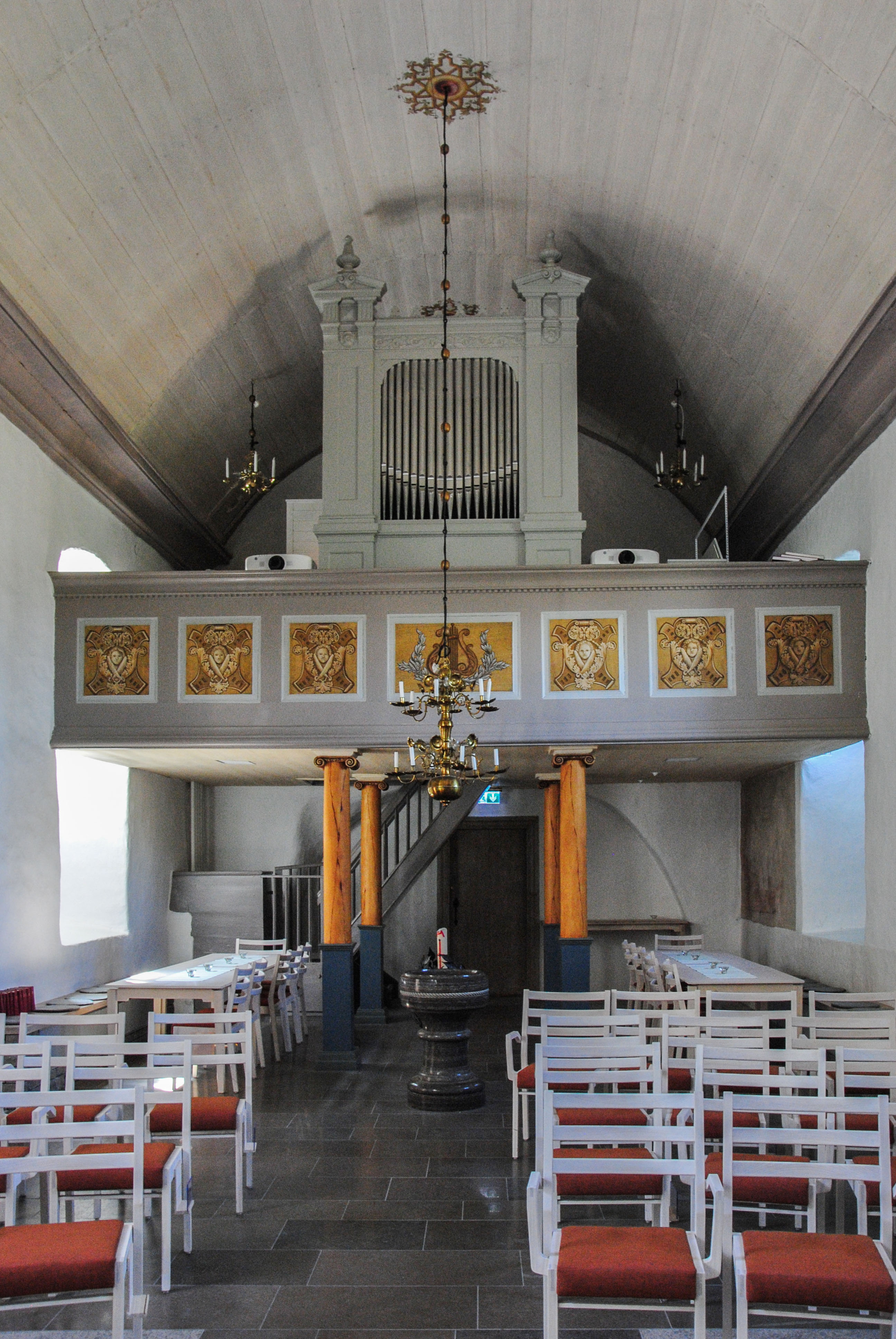 Ventlinge Church. The nave with the organ.